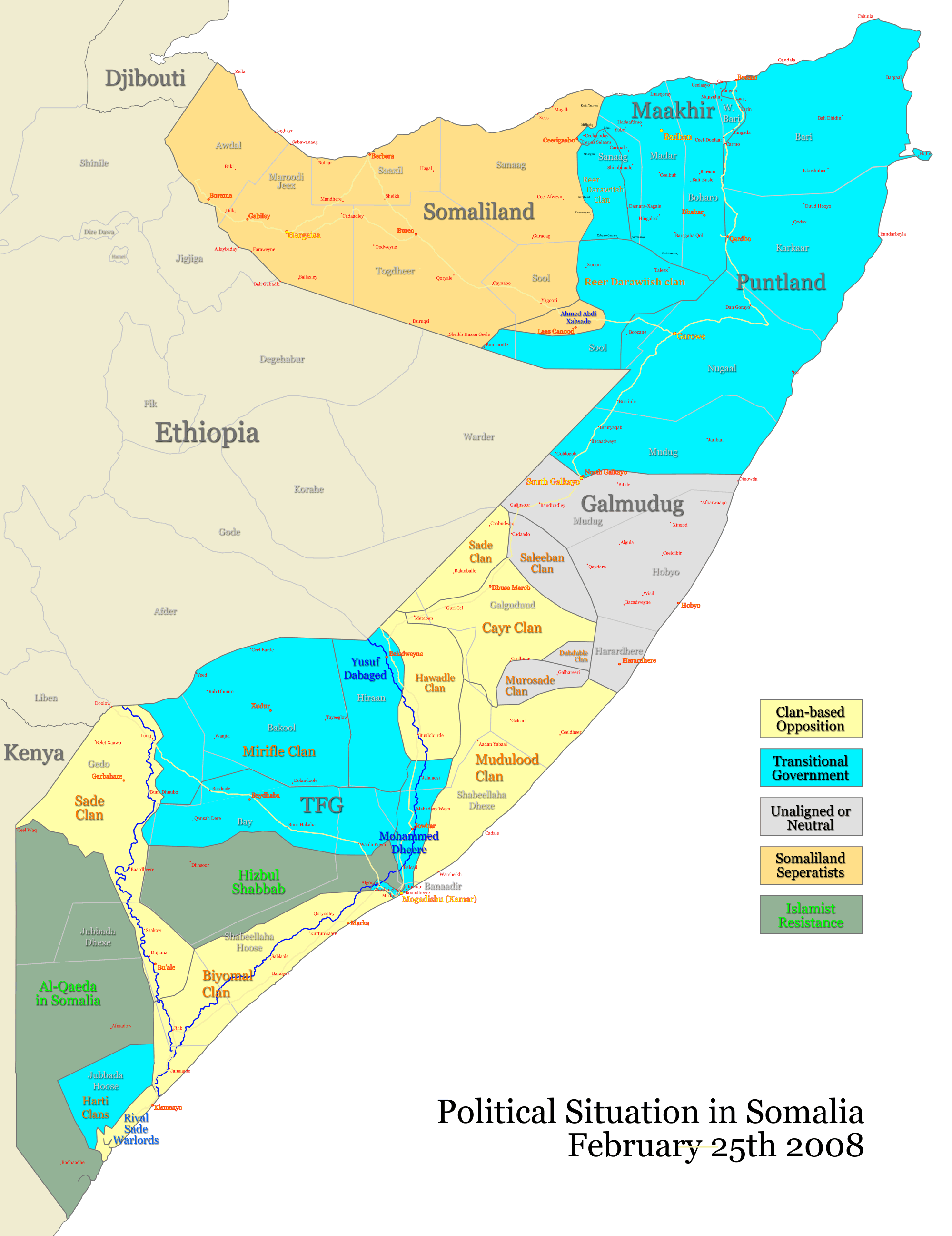 Somalia's states, regions and districts